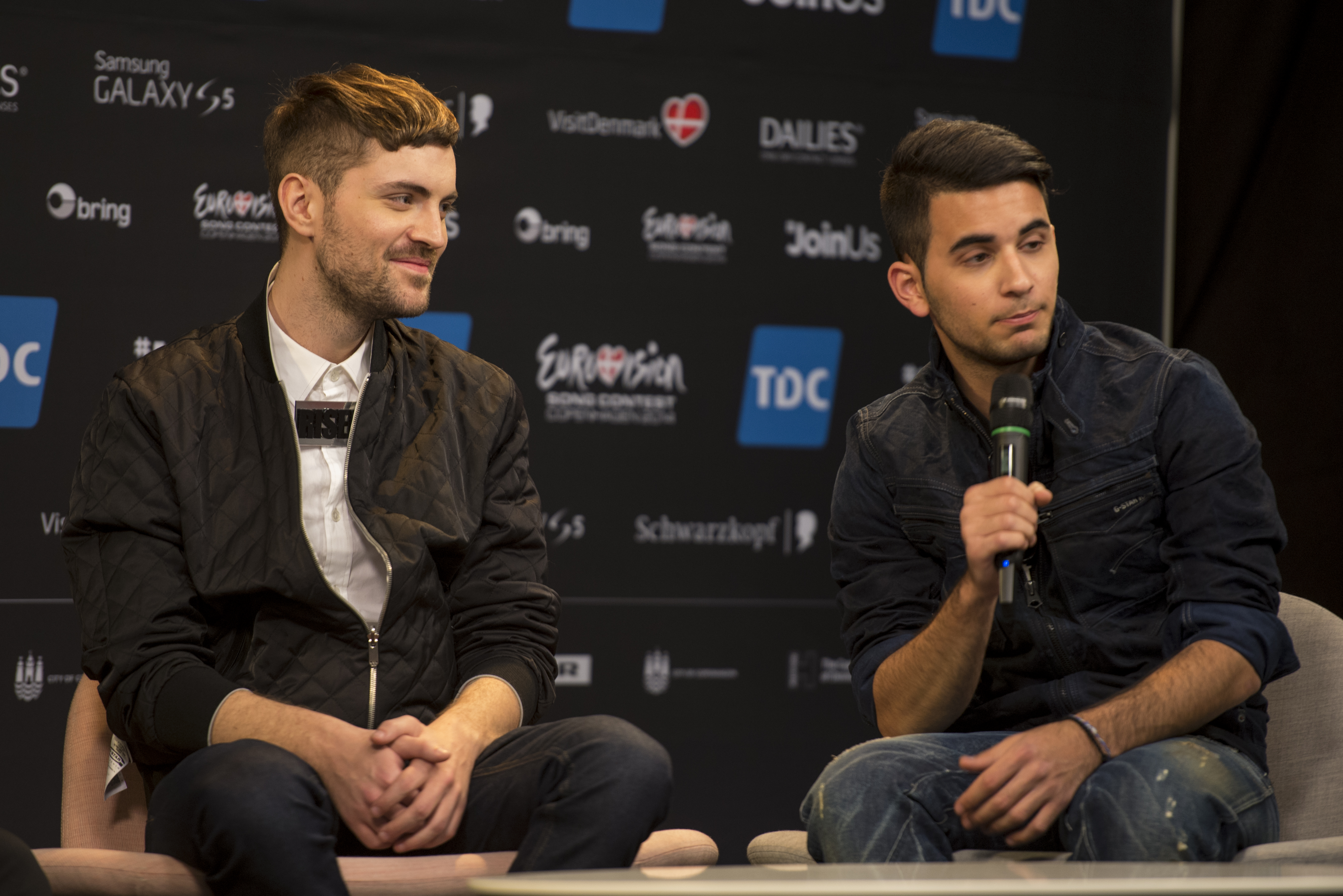 Freaky Fortune from Freaky Fortune and Shane Schuller at a Meet & Greet during the Eurovision Song Contest 2014 Copenhagen. (Help translate this text)